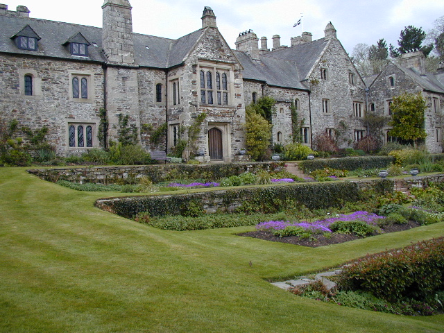 Cotehele House